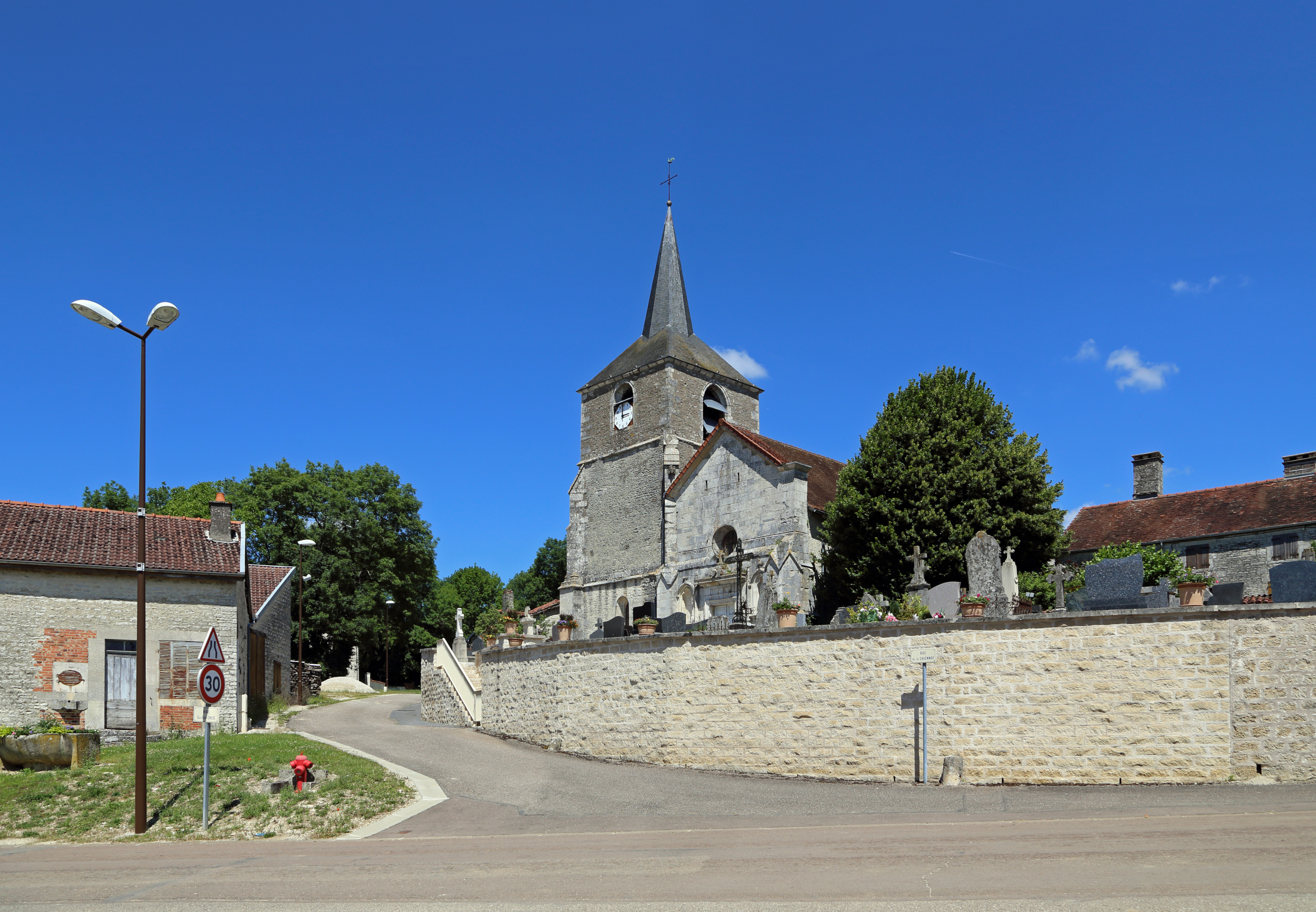 Rouvres-les-Vignes (Aube department, France): Saint Maurice church and the cemetery wall